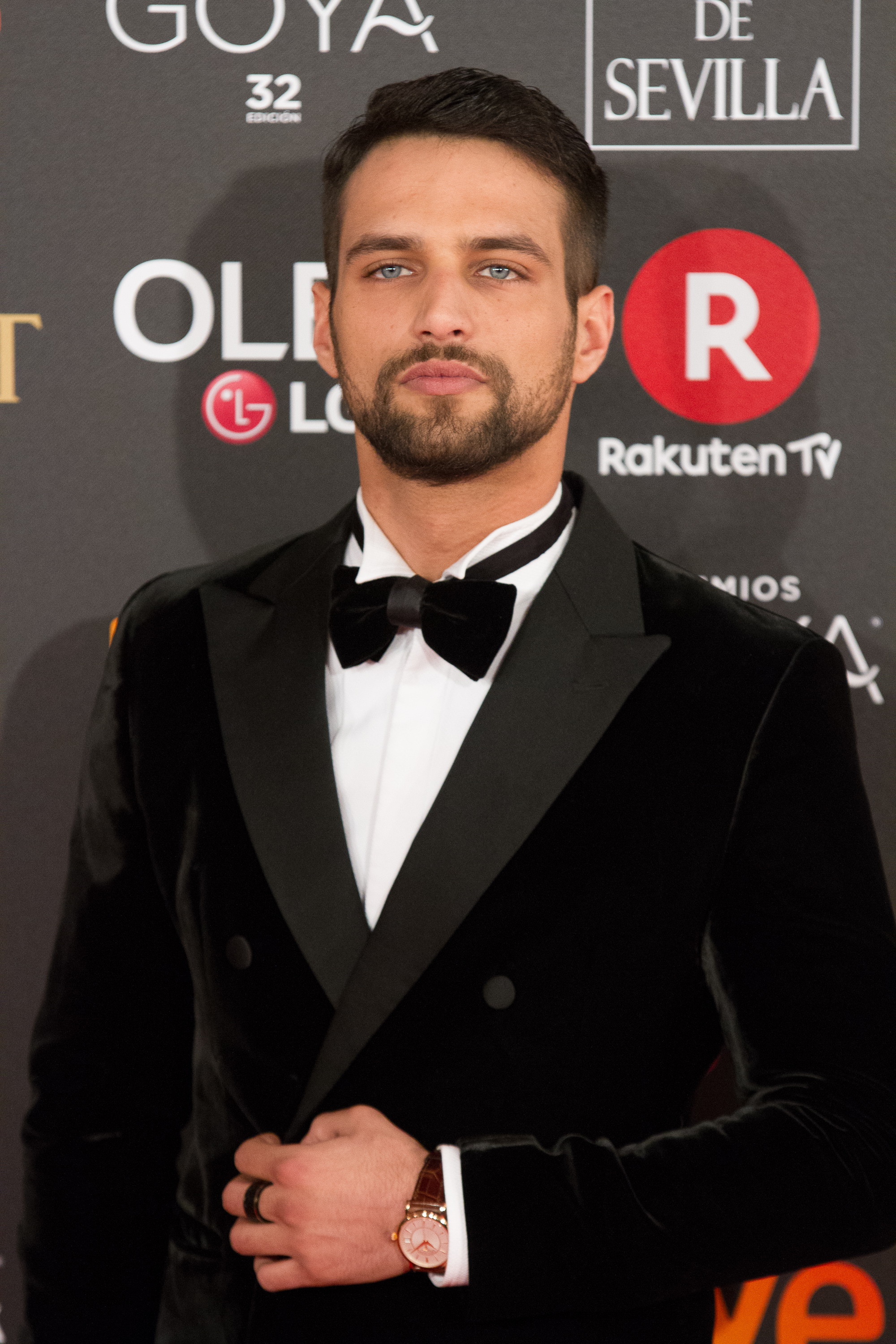 32nd Goya Awards, 2018.